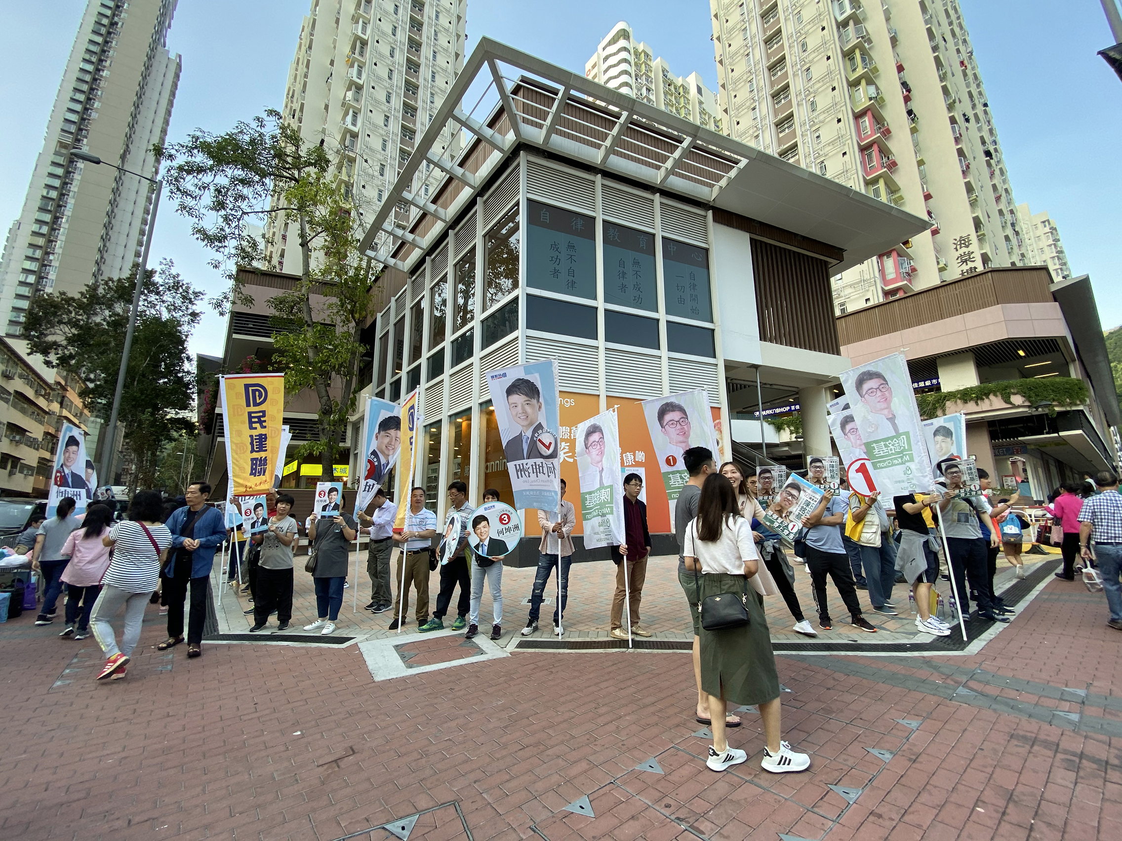 SO UK canvassing